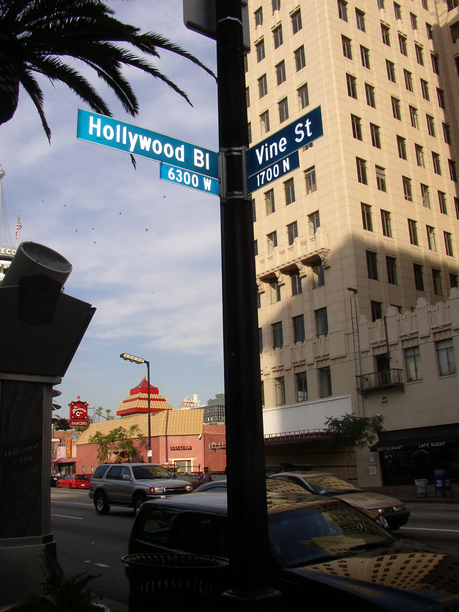 A picture of the Hollywood and Vine street sign.